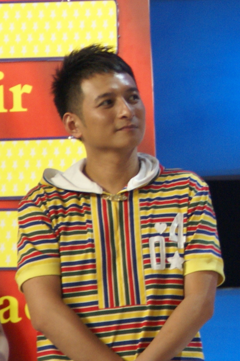 NBA Star on Hu Nan TV